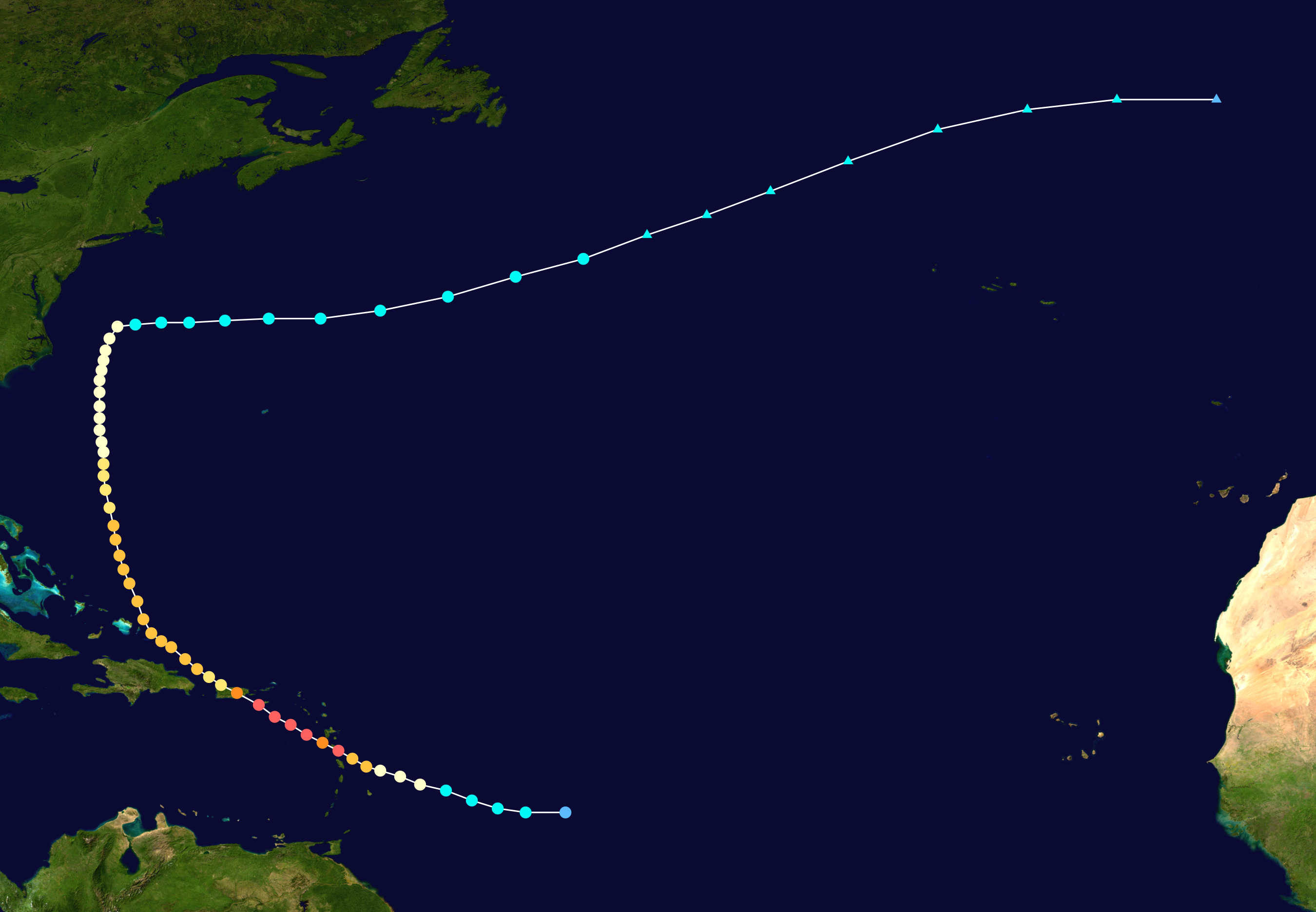 Track map of Hurricane Maria of the 2017 Atlantic hurricane season. The points show the location of the storm at 6-hour intervals. The colour represents the storm's maximum sustained wind speeds as classified in the Saffir–Simpson scale (see below), and the shape of the data points represent the nature of the storm, according to the legend below. Saffir–Simpson scale Tropical depression≤38 mph≤62 km/h Category 3111–129 mph178–208 km/h Tropical storm39–73 mph63–118 km/h Category 4130–156 mph209–251 km/h Category 174–95 mph119–153 km/h Category 5≥157 mph≥252 km/h Category 296–110 mph154–177 km/h Unknown Storm type Tropical cyclone Subtropical cyclone Extratropical cyclone / Remnant low / Tropical disturbance / Monsoon depression